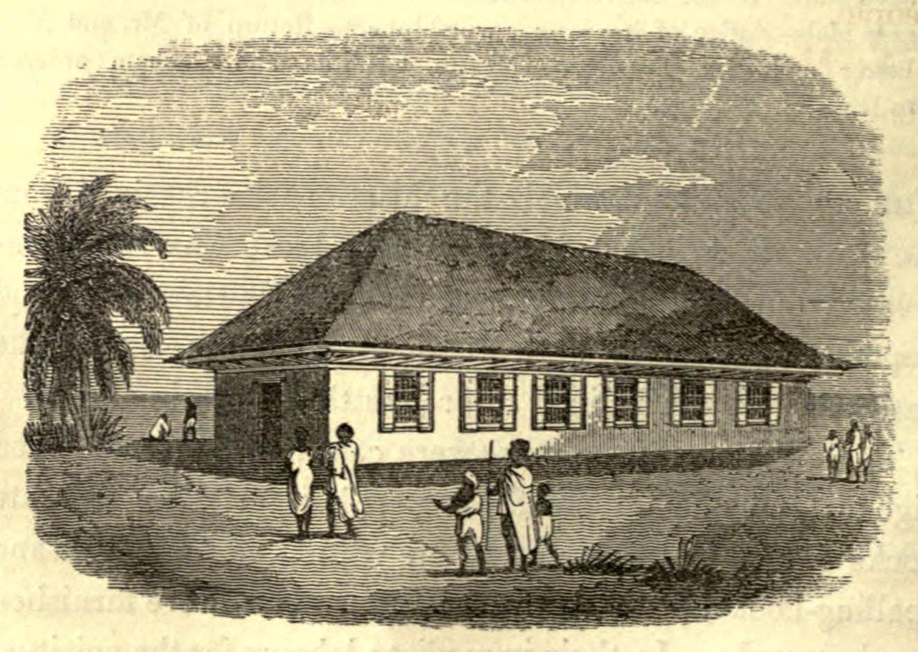 Chapel at Ambatonakanga.